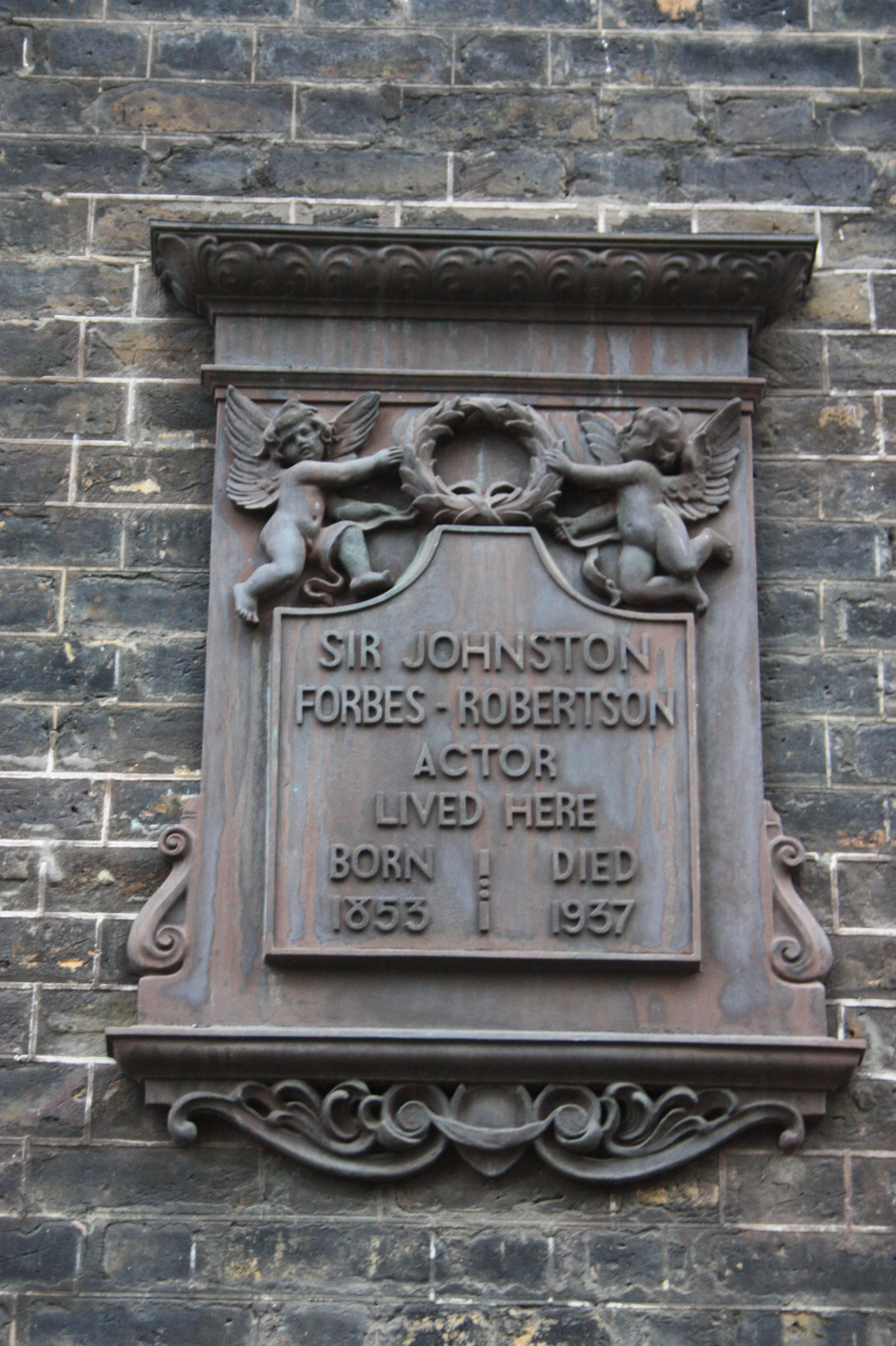 Plaque to Johnston Forbes-Robertson, Bedford Square, London